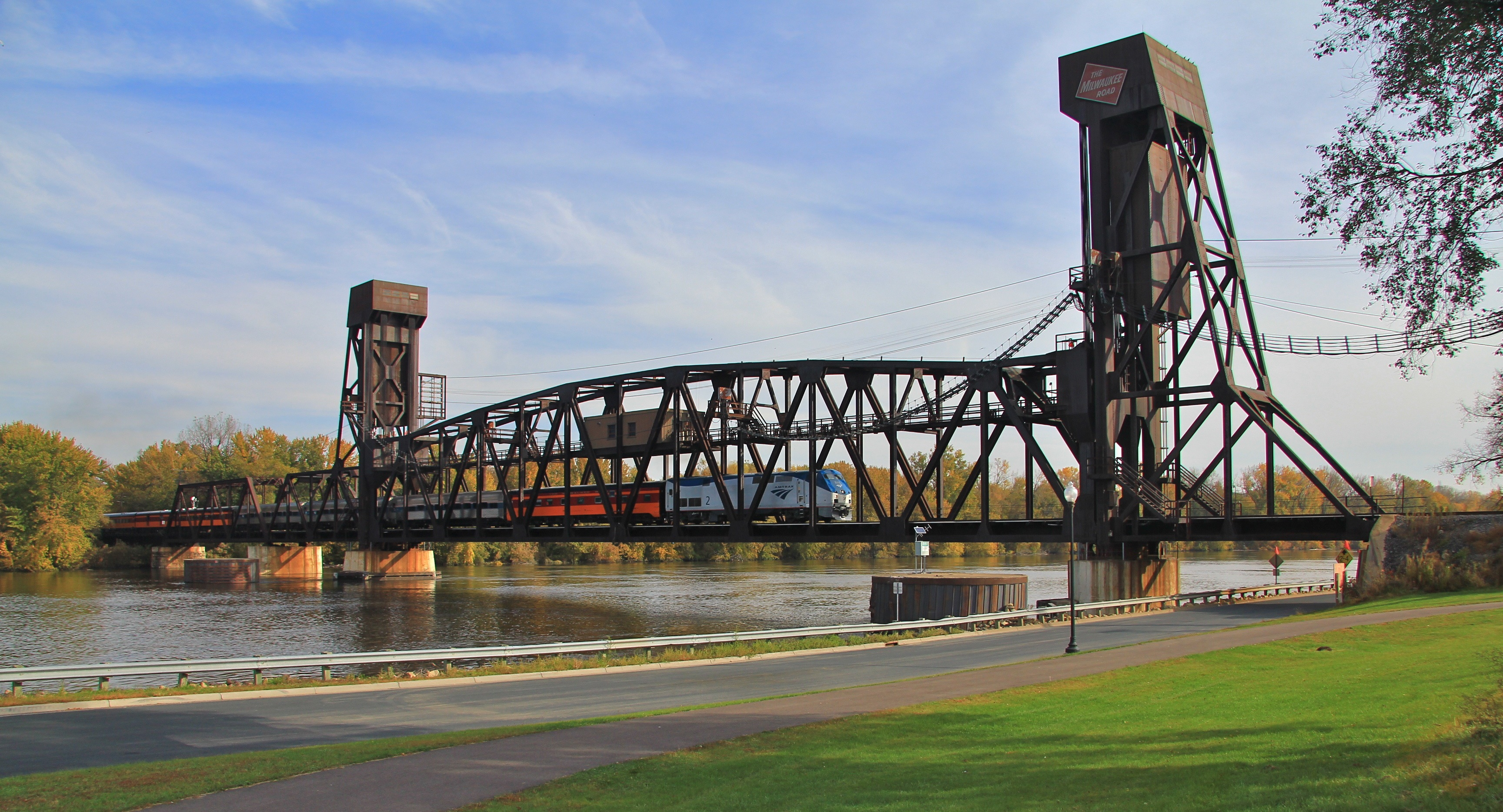 The fall colors excursion train passing through the lift bridge in Hastings, Minnesota. The bridge was originally built by the Milwaukee Road and still has that defunct railroad's logo painted on (at least) one of the towers.